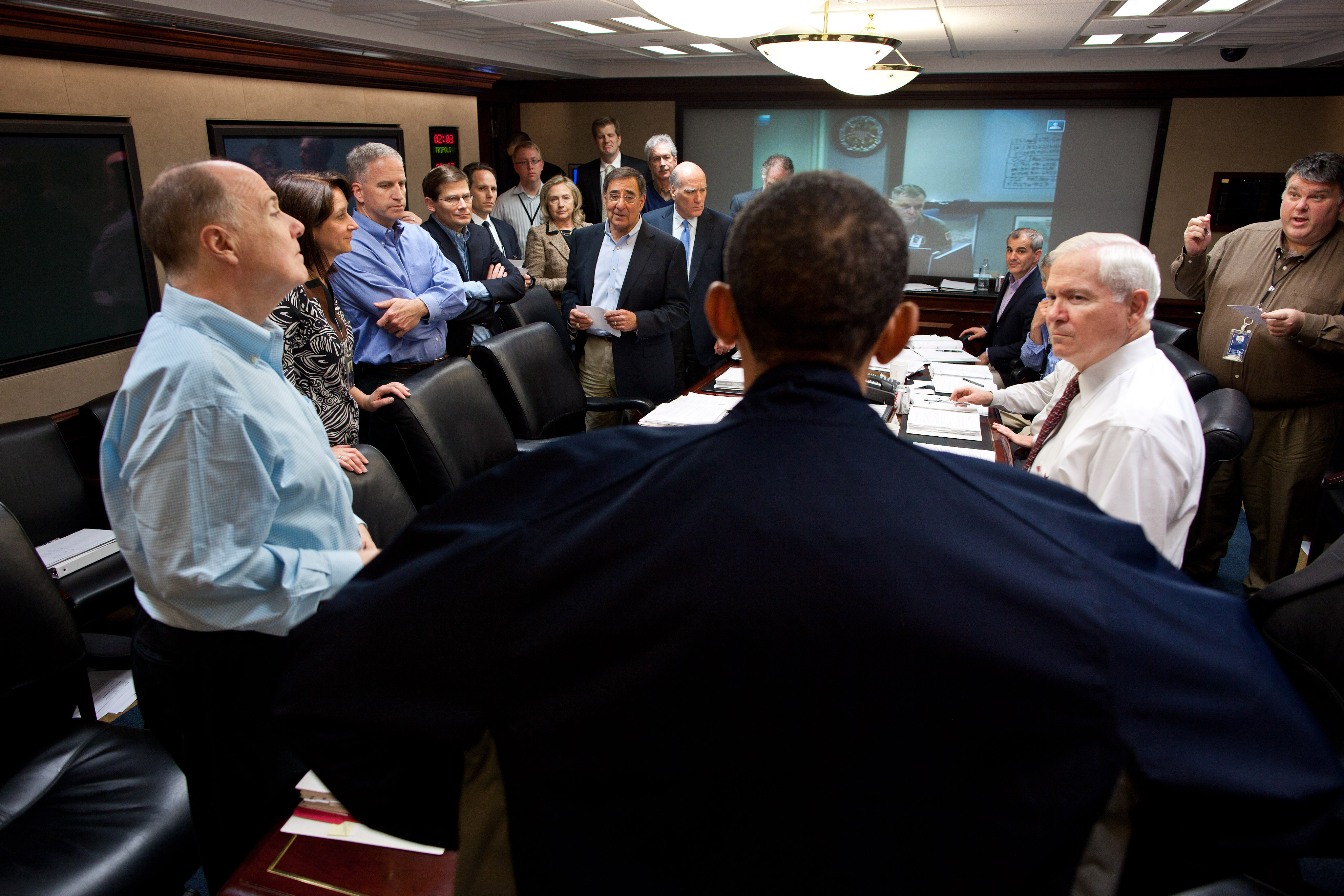 President Barack Obama talks with members of the national security team at the conclusion of one in a series of meetings discussing the mission against Osama bin Laden, in the Situation Room of the White House, May 1, 2011. Gen. James Cartwright, Vice Chairman of the Joint Chiefs of Staff, is seen on the screen.